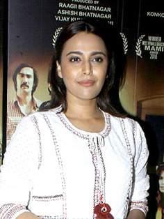 Swara Bhaskar Special screenning of A Death In The Gunj at Lightbox